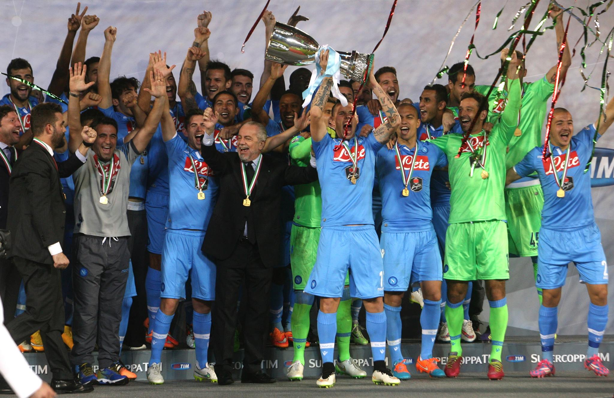 Napoli brought an end to Juventus's dominance in the 2014 Italian Super Cup with a dramatic sudden-death penalty shootout win in Doha. Photo by Hanson K Joseph